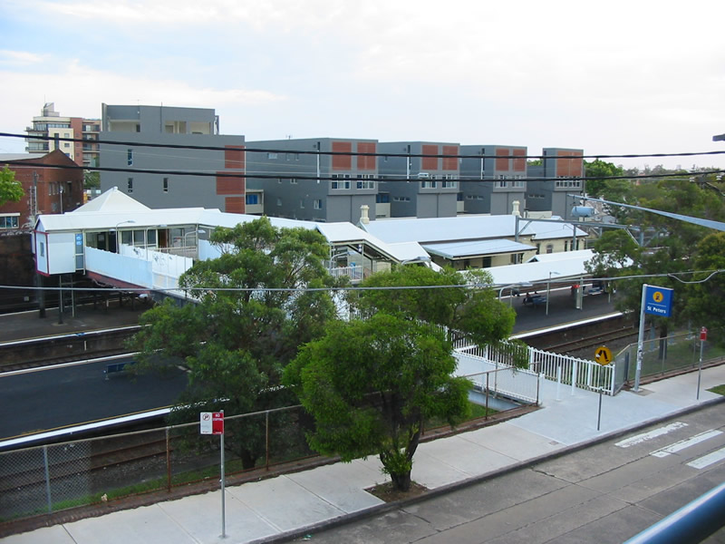 St Peters railway station, Lord Street entrance.